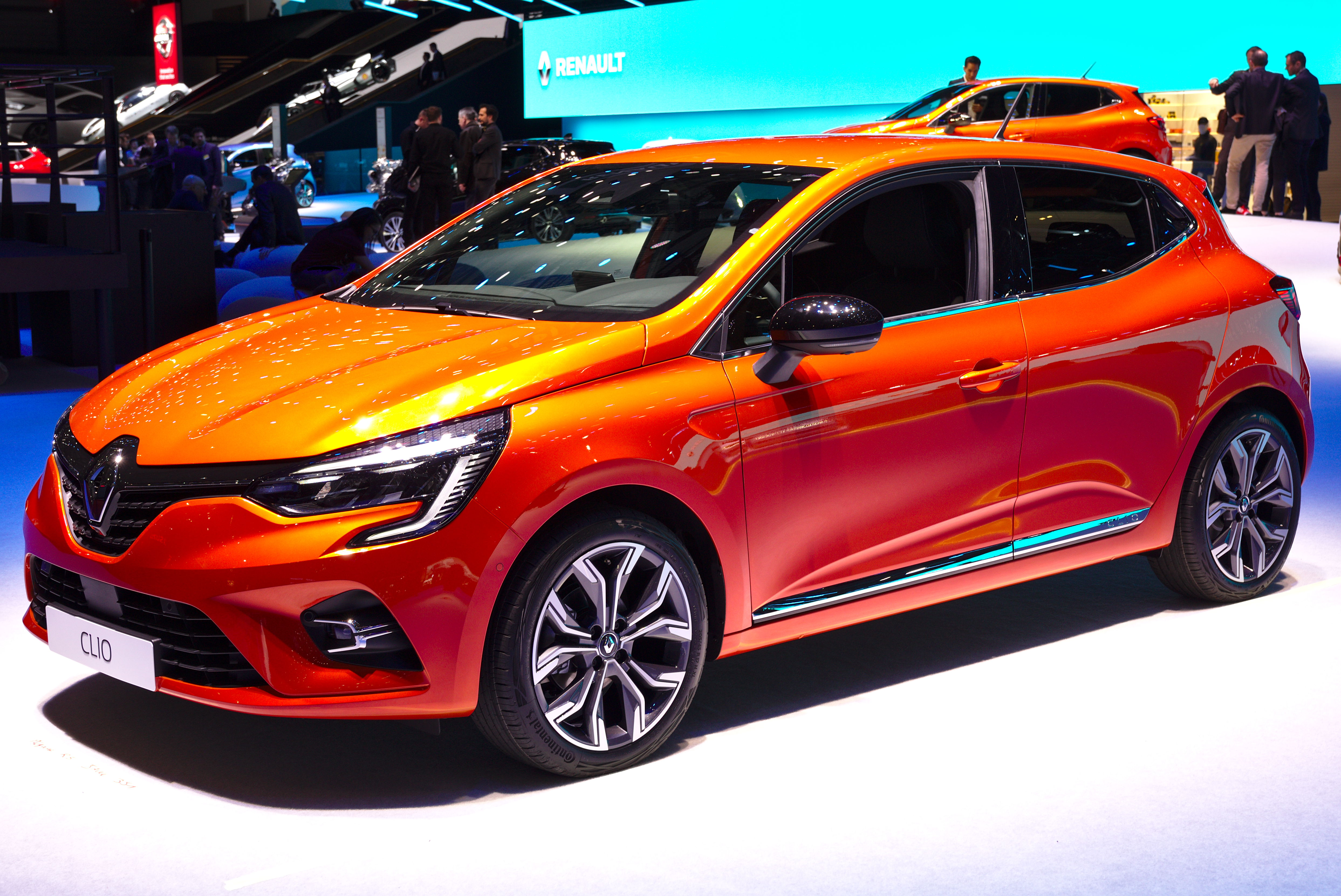 Renault Clio V at Geneva Motor Show 2019